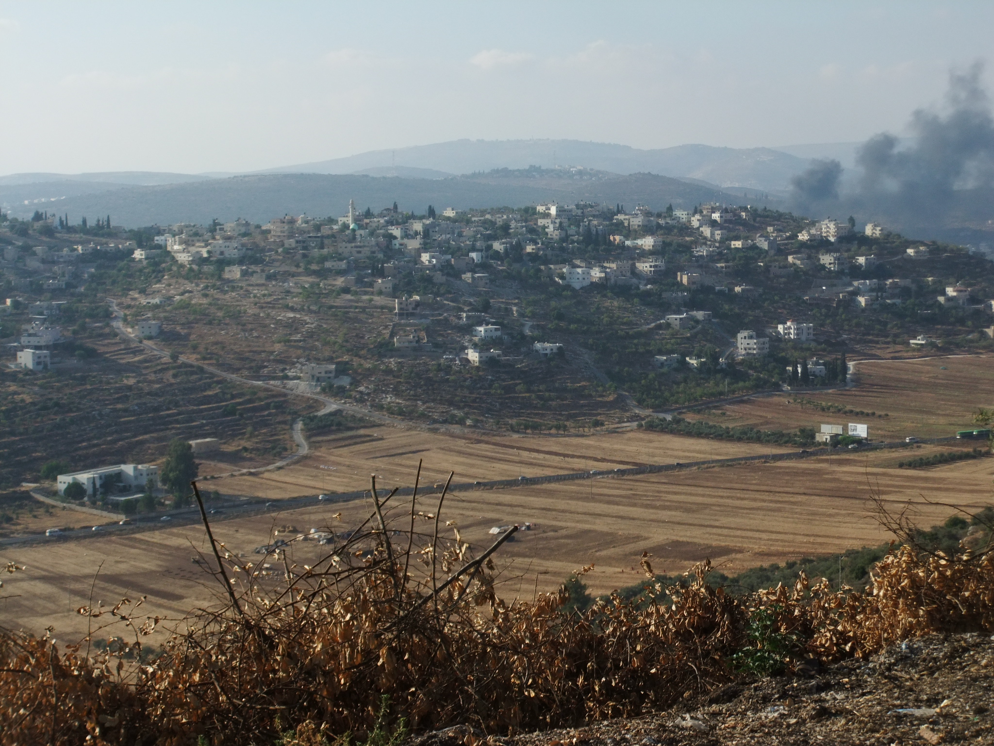 As-Sawiya taken from Eli. Behind is Rechelim